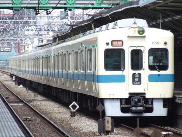 (Odakyu Electric Railway Company, EMU Type 5000)